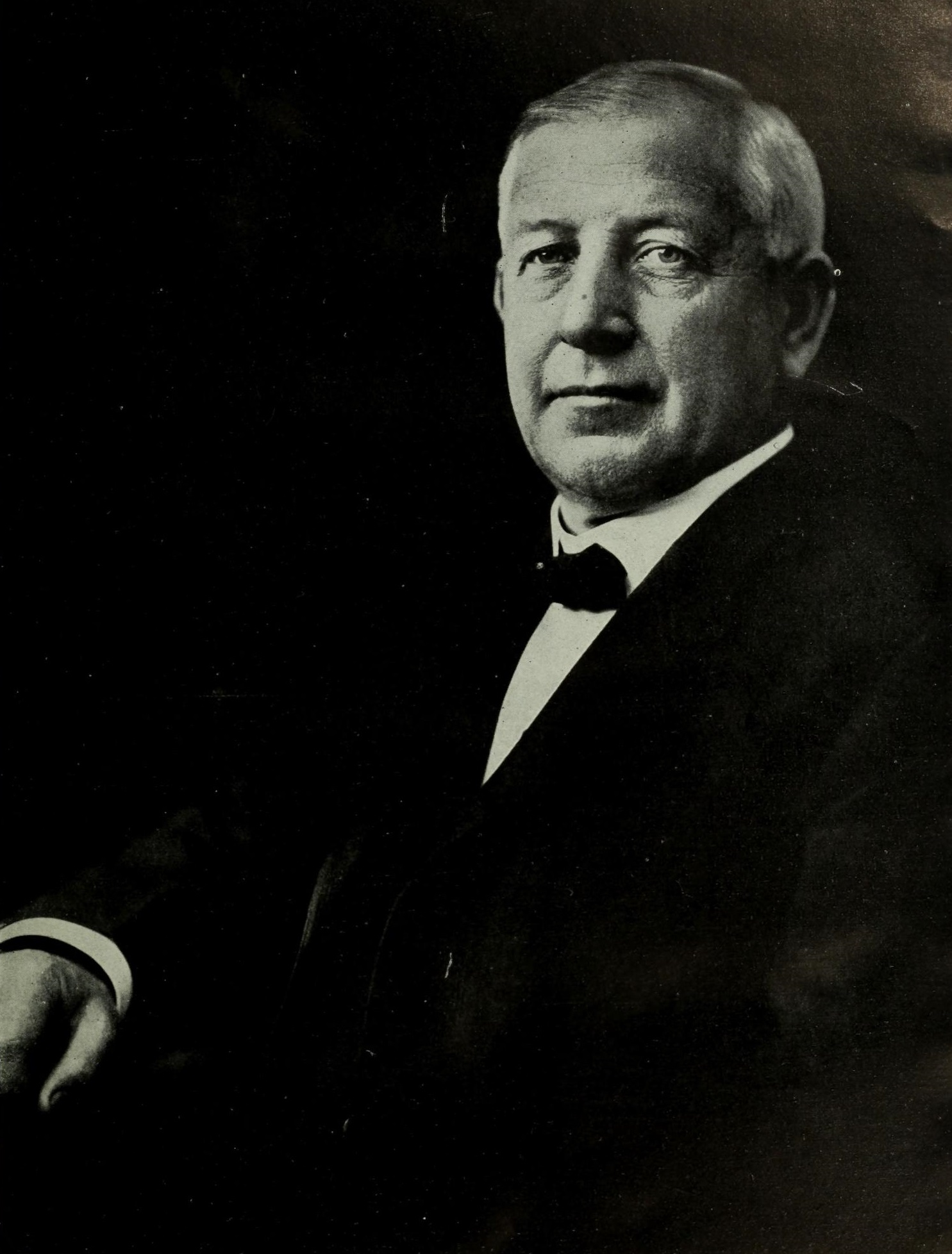 Portrait of William Stephens